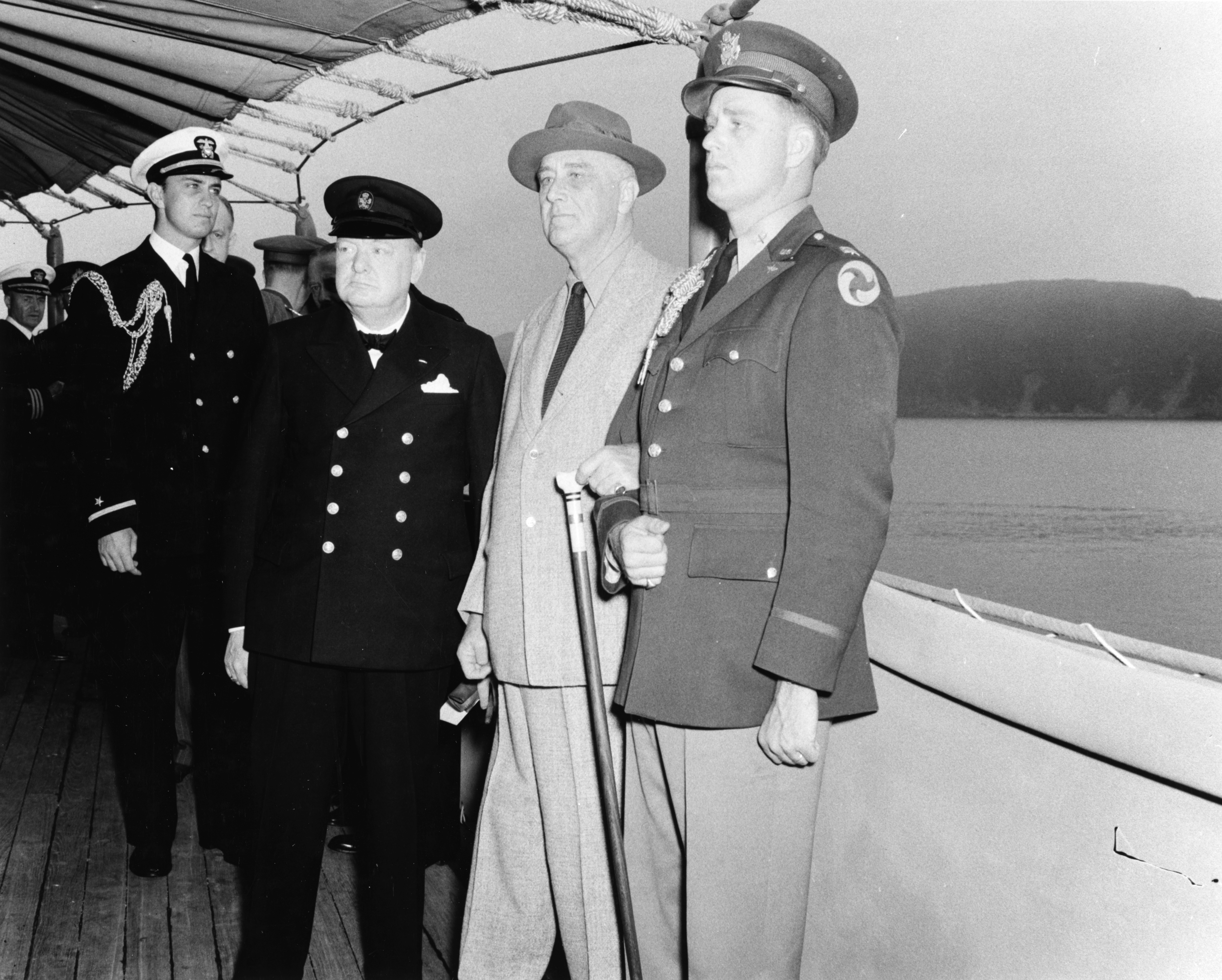 Atlantic Charter Conference, August 1941: The British Prime Minister Winston Churchill meets with U.S. President Franklin D. Roosevelt on board the U.S. Navy heavy cruiser USS Augusta (CA-31), off Argentia, Newfoundland, on 9 August 1941. Assisting the President is his son, Army Captain Elliot Roosevelt. Ensign Franklin D. Roosevelt, Jr., USNR, is at left, with Assistant Secretary of State Sumner Welles standing behind him.